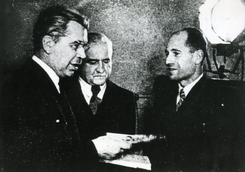 President of Soviet Academy S. I. Vavilov and Academician A. A. Lebedev with collaborator. 1940-th.